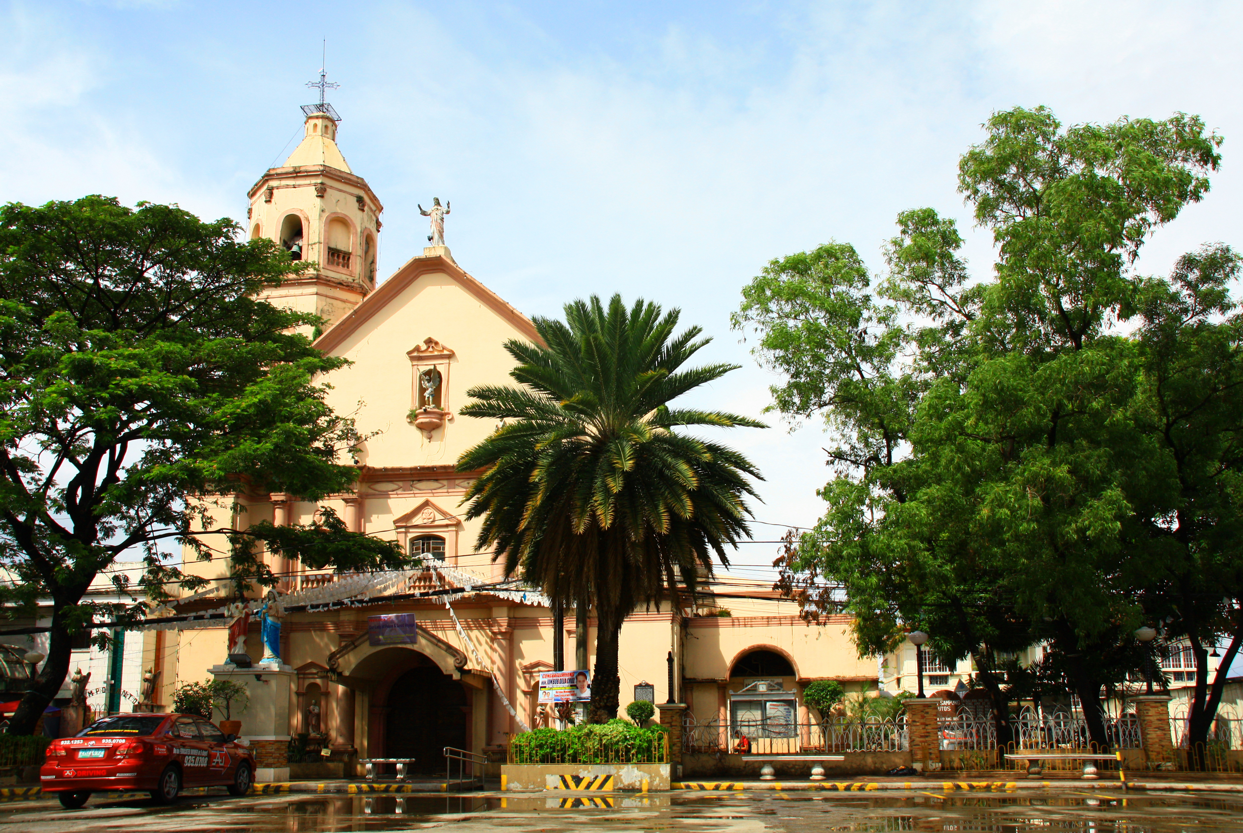 Facade - San Miguel Arcangel Church in Marilao